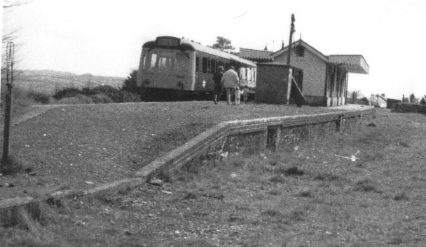 Gunnislake station in Cornwall as it appeared in 1972.